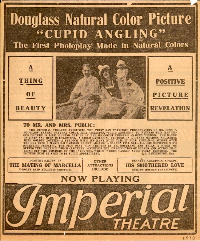 Cupid Angling (1918) is a silent film, the fifth feature film photographed in color. This is an advertisement for the film.